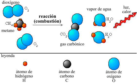 Combusiton of methane in dioxygen, drawn with a vector graphics software.